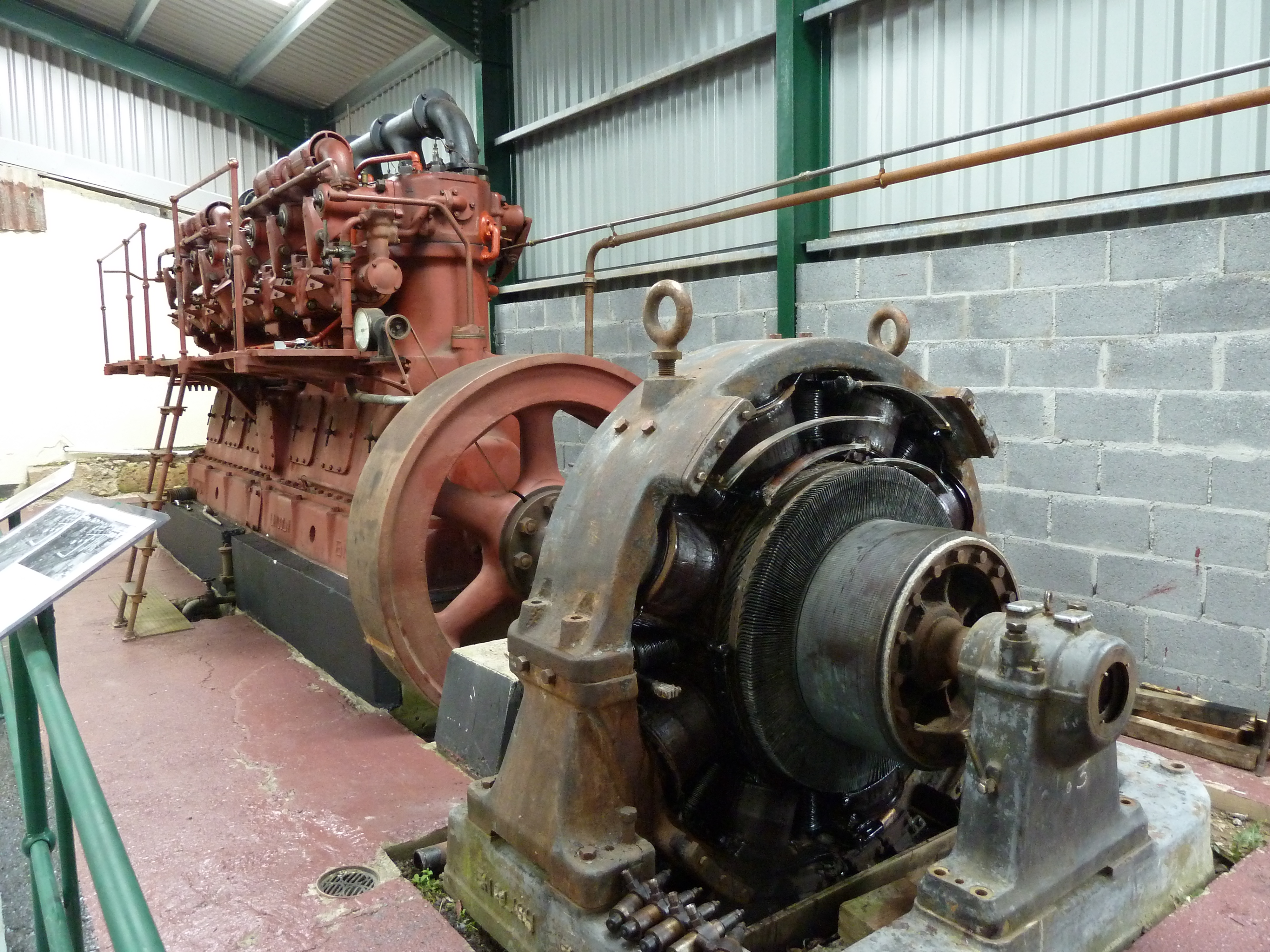 Ruston 6VE diesel engine and dynamo. One of four from BBC Moorside Edge radio station, Yorkshire. Now on display at the Internal Fire museum.